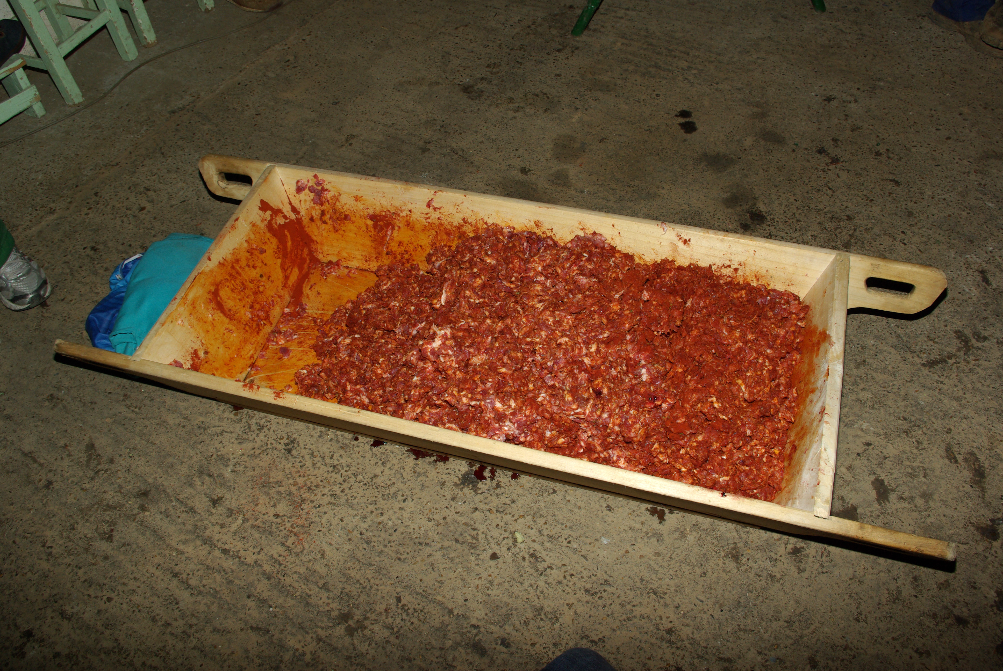 Tradicional pig matance in Santa María del Páramo (León Spain).